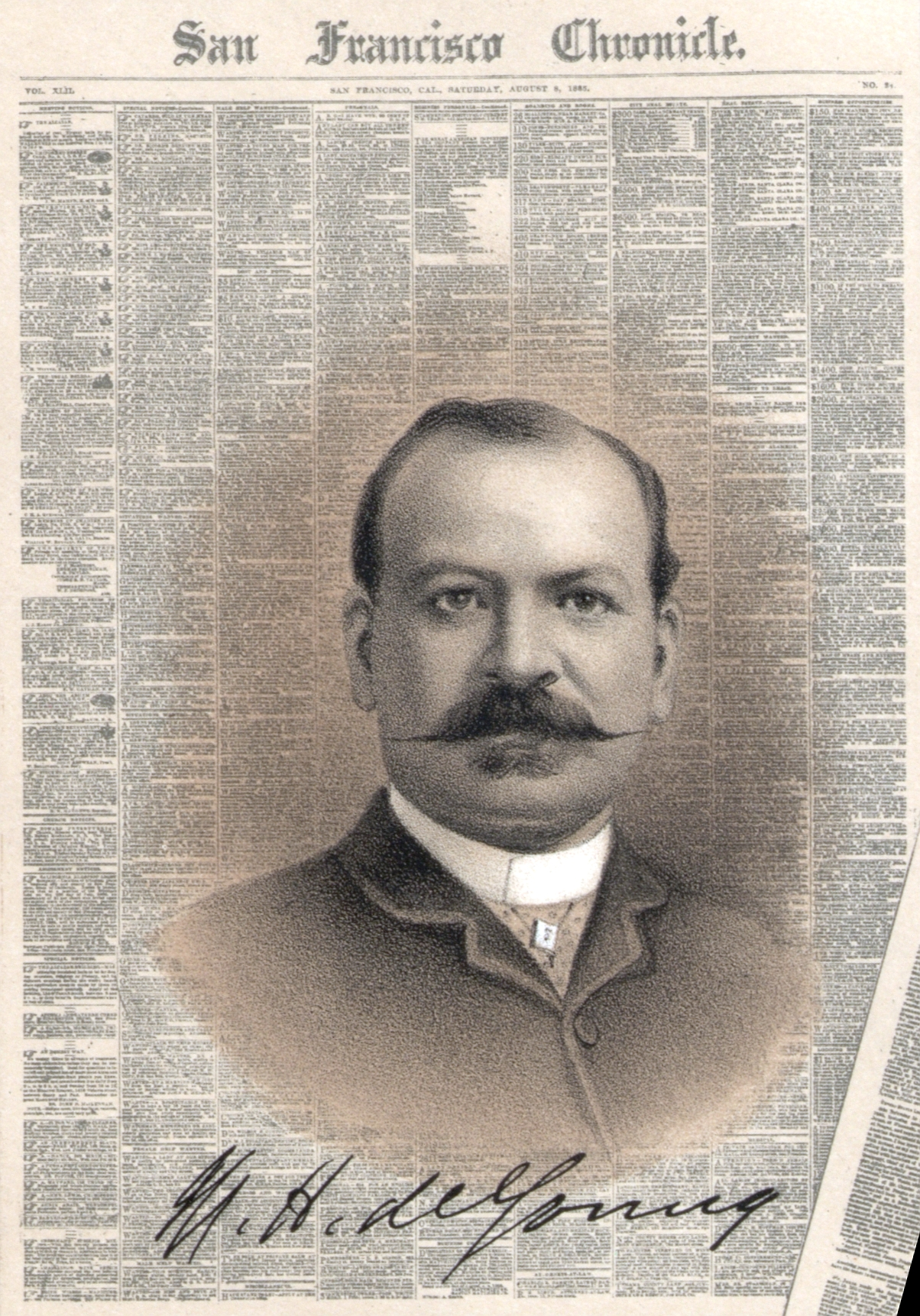 American journalist and businessman Michael Henry de Young (1849-1925)